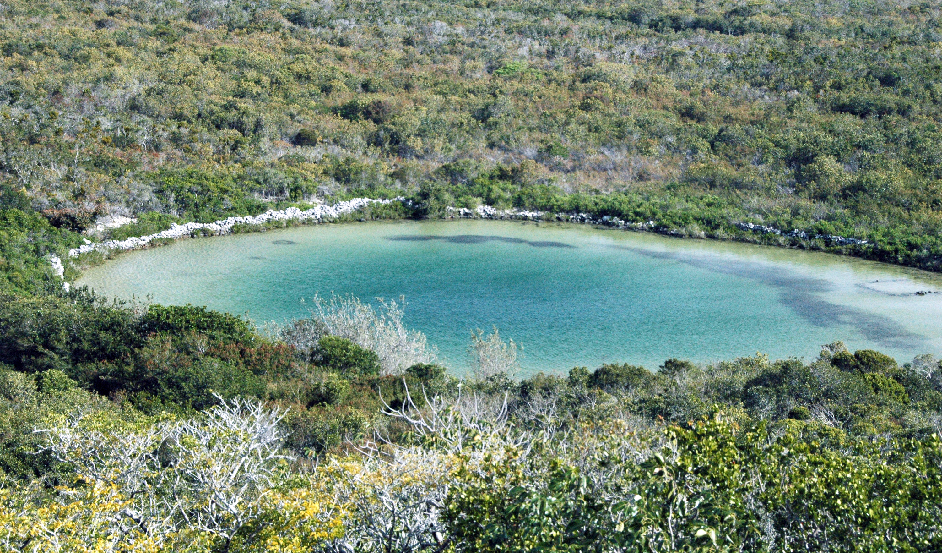 Watling's Blue Hole, southwestern San Salvador Island, eastern Bahamas. (photo by Mark Peter) Several categories of karst (dissolutional features in soluble rocks such as limestone) exist on islands in the Bahamas. Common small-scale karst features include phytokarst and solution tubes. Large-scale karst features include flank margin caves, pit caves, banana holes, lake drains, and blue holes. Blue holes are large, water-filled, subcylindrical voids that extend well below sea level. Blue holes can be oceanic or inland (as is the example shown above). Blue hole waters range in salinity from fresh to marine. Multiple plausible mechanisms have been proposed for the origin of blue holes (e.g., see Mylroie & Carew, 2008, p. 31). Reference cited: Mylroie, J.E. & J.L. Carew. 2008. Field Guide to the Geology and Karst Geomorphology of San Salvador Island. 88 pp.